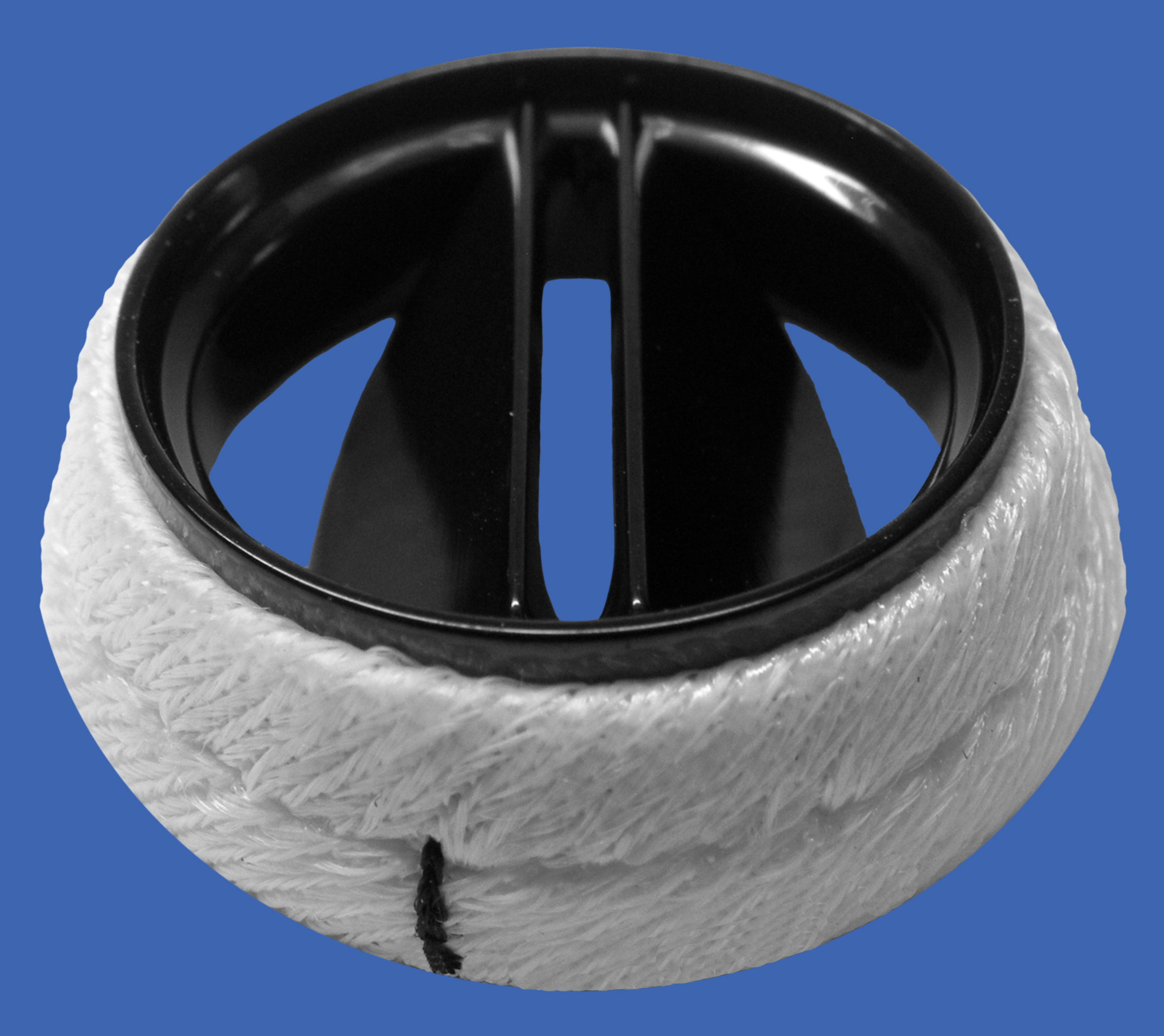 Aortic Karboniks-1 bileafter prosthetic heart valve